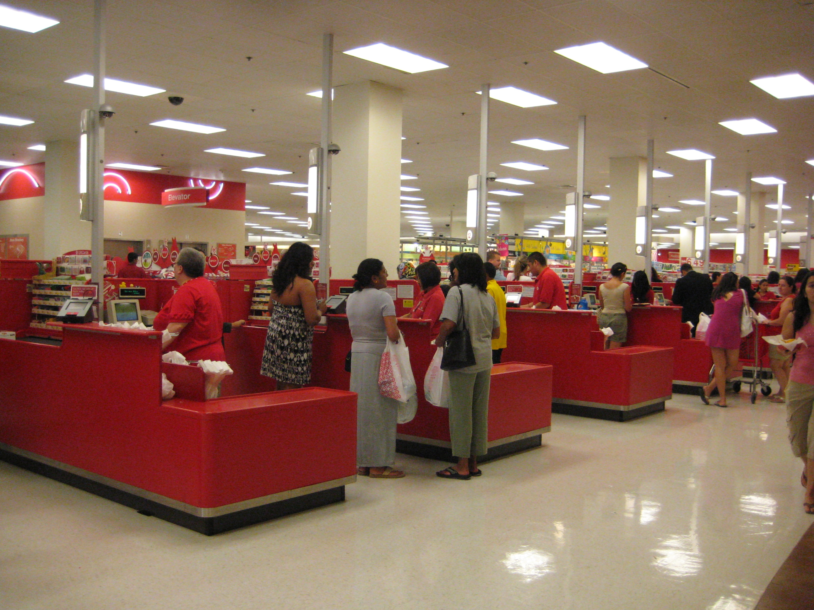 This is a row of Cash Registers at a Target store in the US